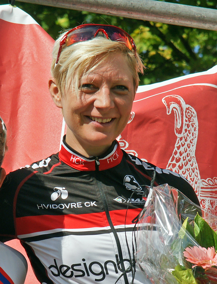 Cathrine Grage, Denmark - Danish road race champion 2012 - here after winning a road race in Roskilde, Denmark